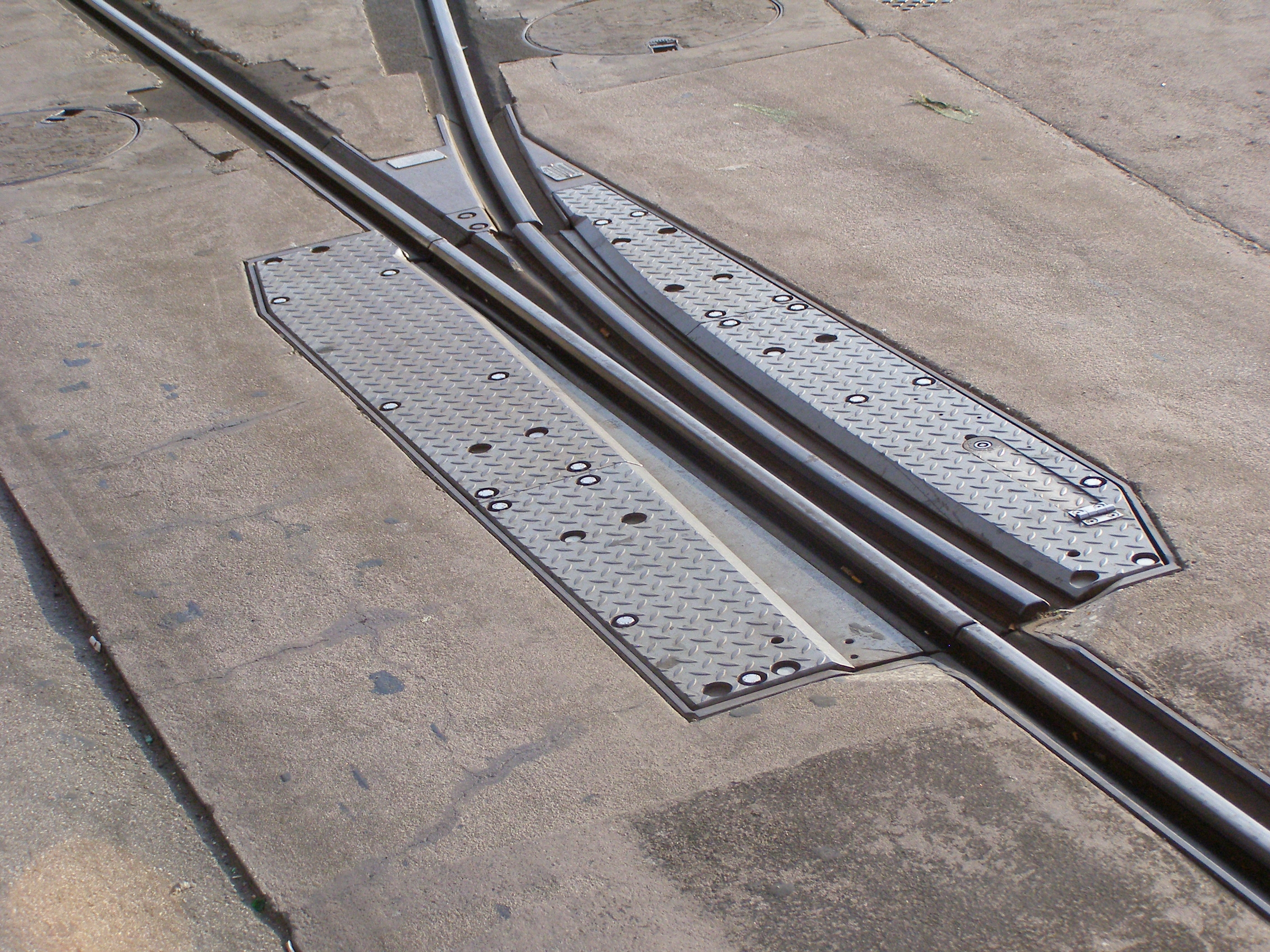 Padua - Translohr tram track point (Piazzale Stazione)